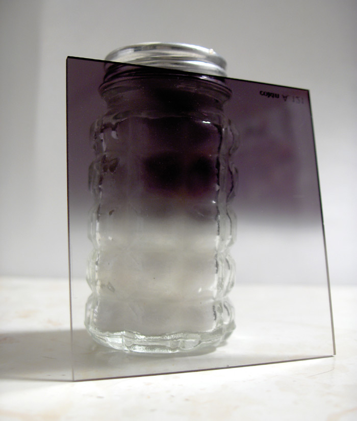 A graduated ND filter made by Cokin. Cuts light in the top half by two stops (ND2). Picture taken by me.